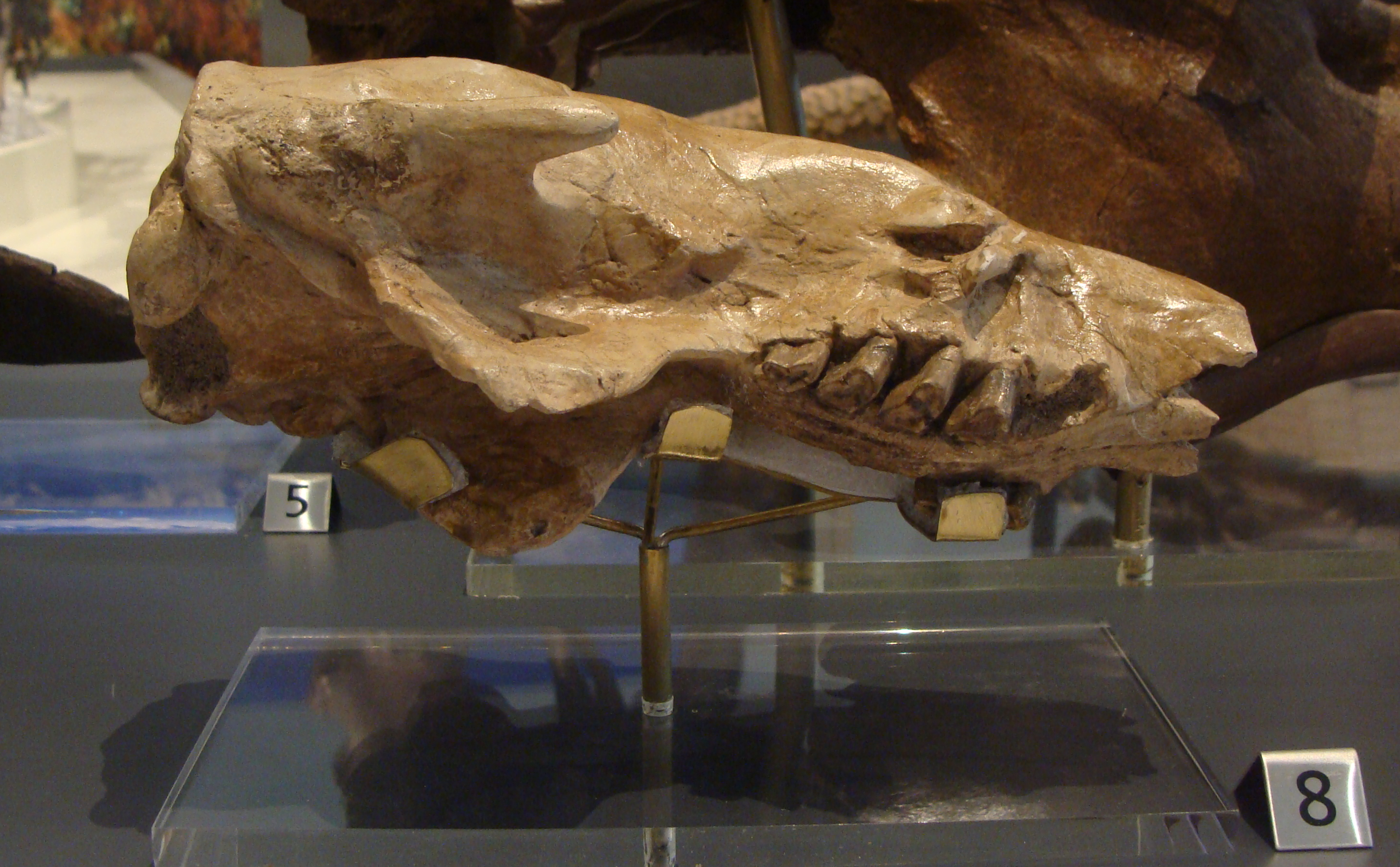 Nematherium sp. skull on display at the Royal Ontario Museum.